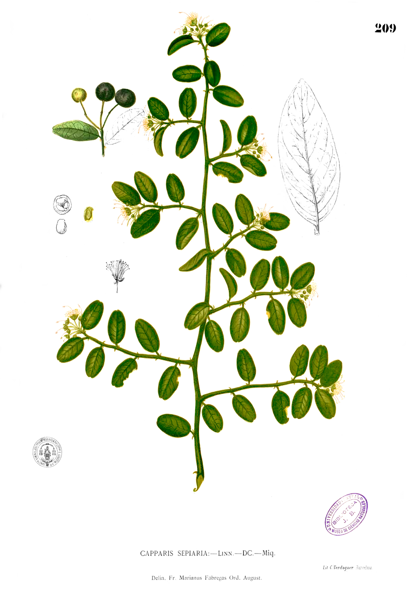 Plate from book Capparis sepiaria